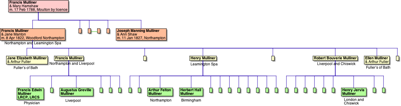 family tree of Mulliners, Coachbuilders of Northampton, Leamington Spa, Birmingham, Liverpool, London and Chiswick